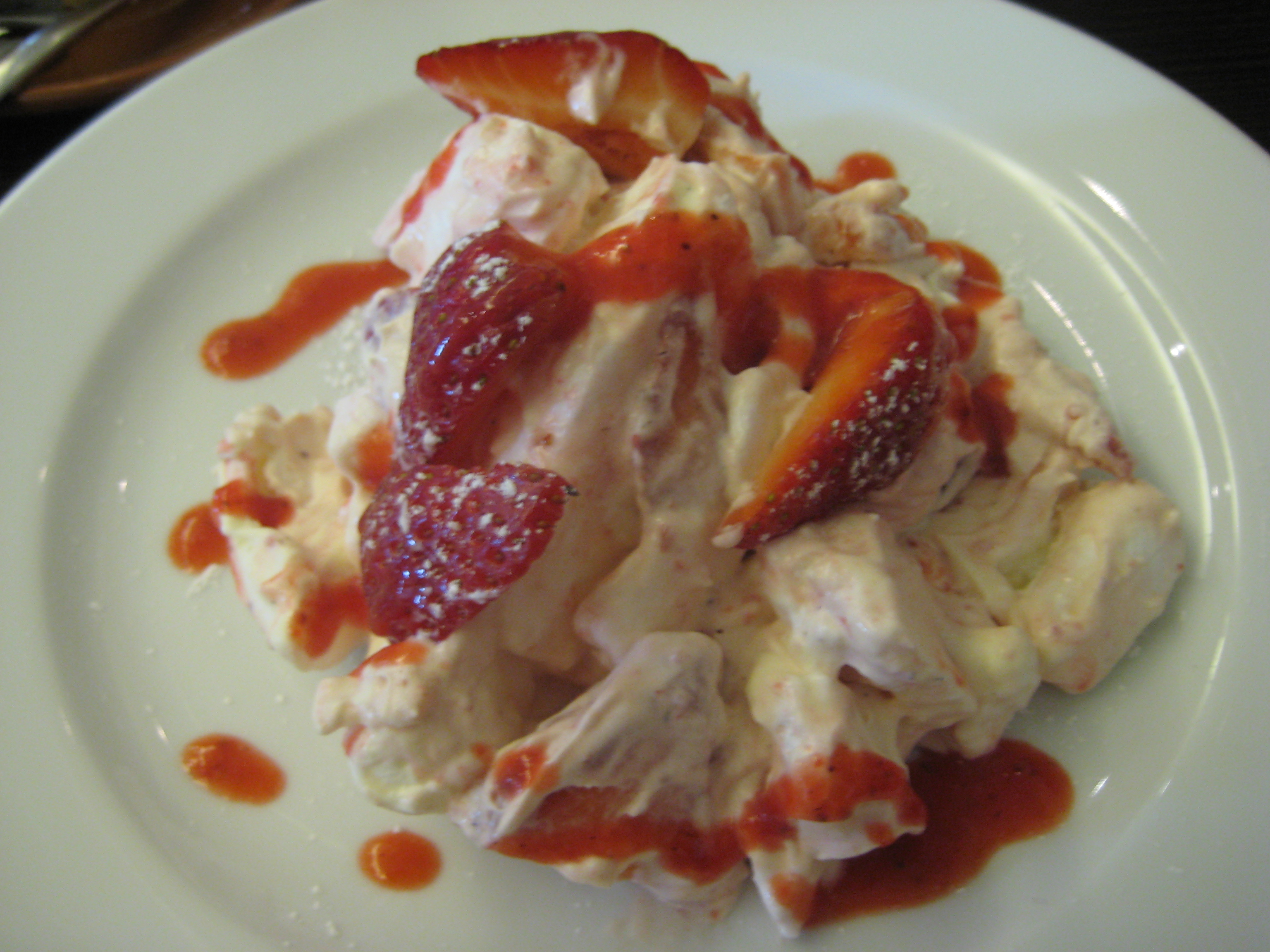 Kept thinking this was called something in Italian I couldn't understand in the waitresses' thick accent. It's cream, broken up meringue, strawberries and a strawberry coulis.